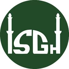 ICGH Logo